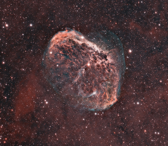 NGC 6888 in bicolor Ha/OIII from amateur equipment